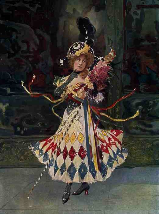 Drawing of Katie Seymour in A Runaway Girl, from a book entitled "Players of the Day", published in London by George Newnes, circa 1902.